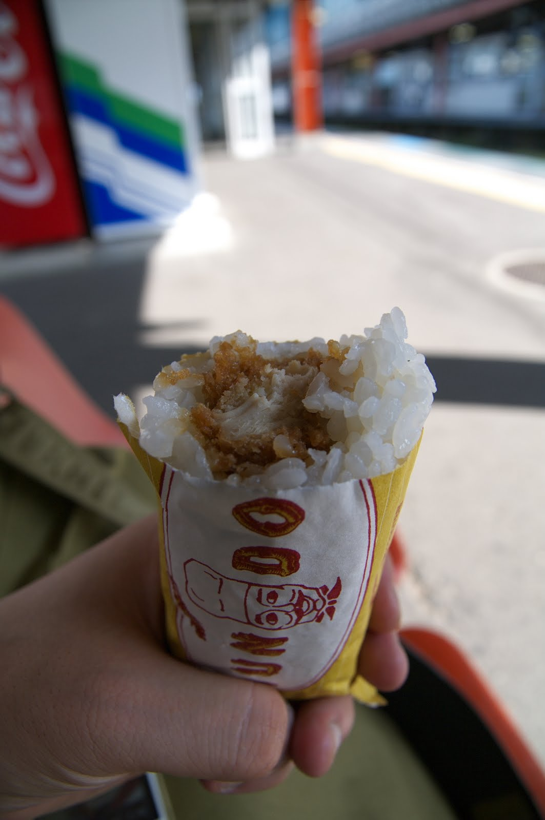 JUN DOG.